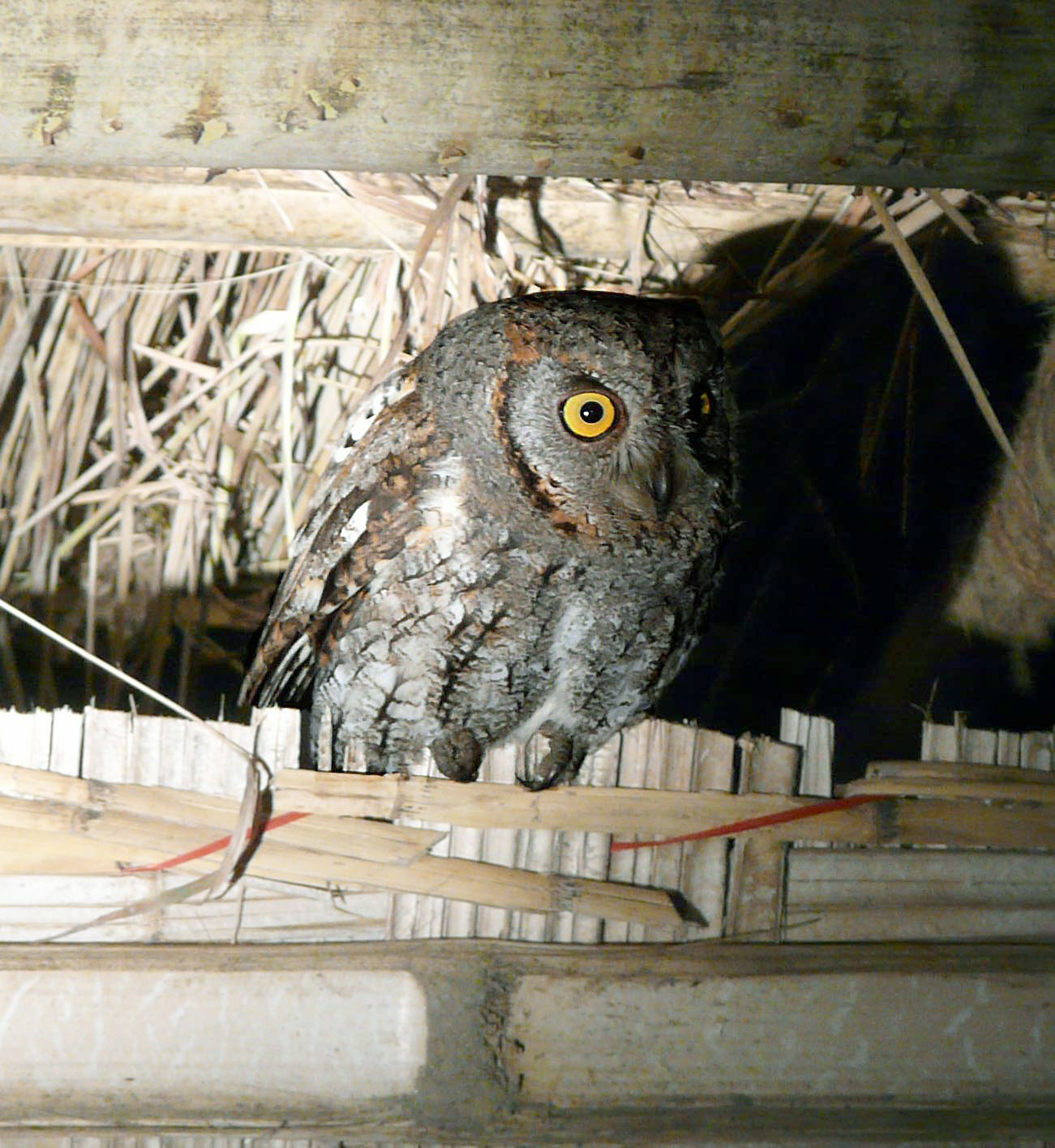 This Oriental Scops Owl Otus sunia flew in to our camp kitchen for a photo opportunity at Suklaphanta, Dhangarhi, Nepal